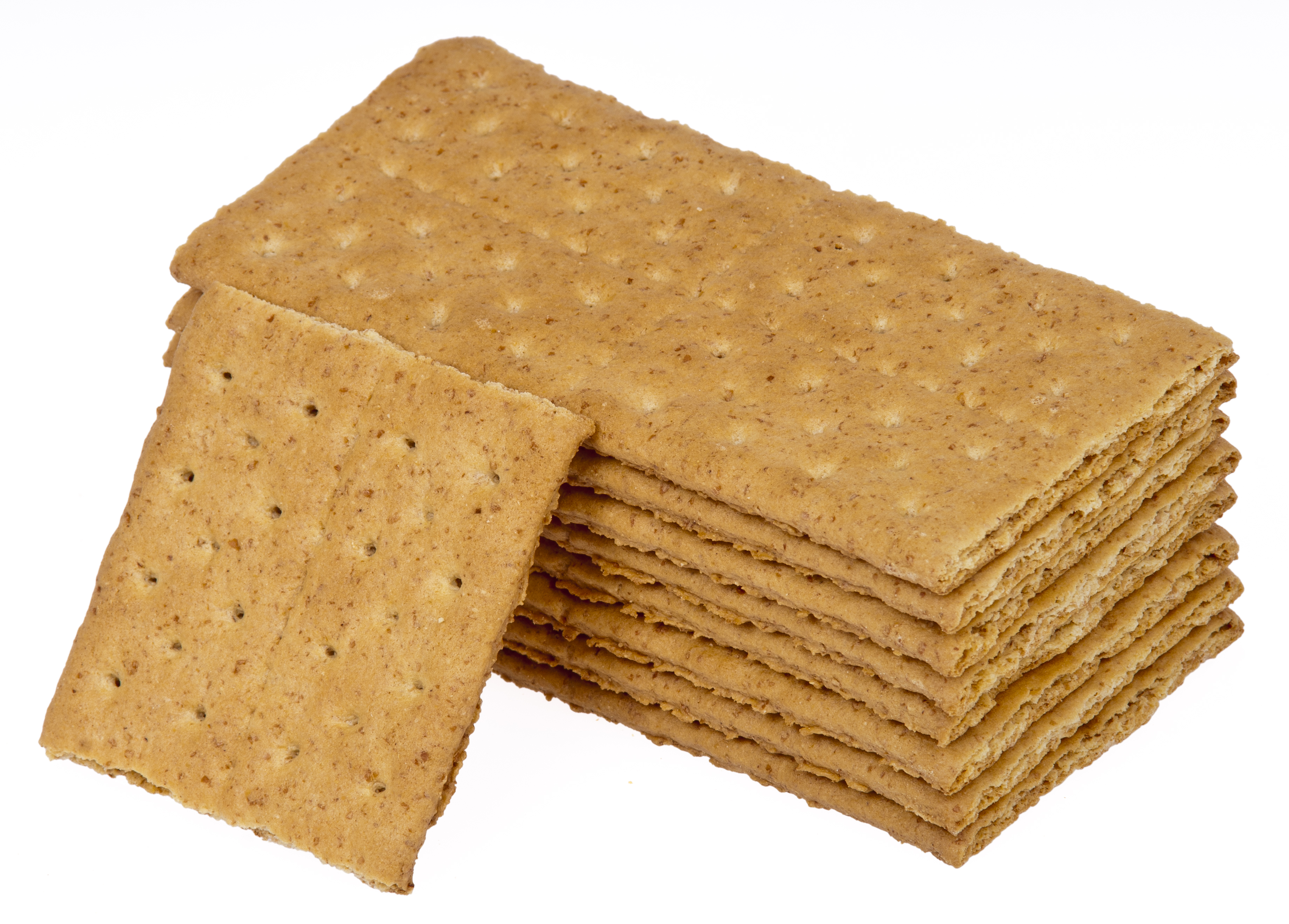 A stack of Nabisco Graham Crackers.